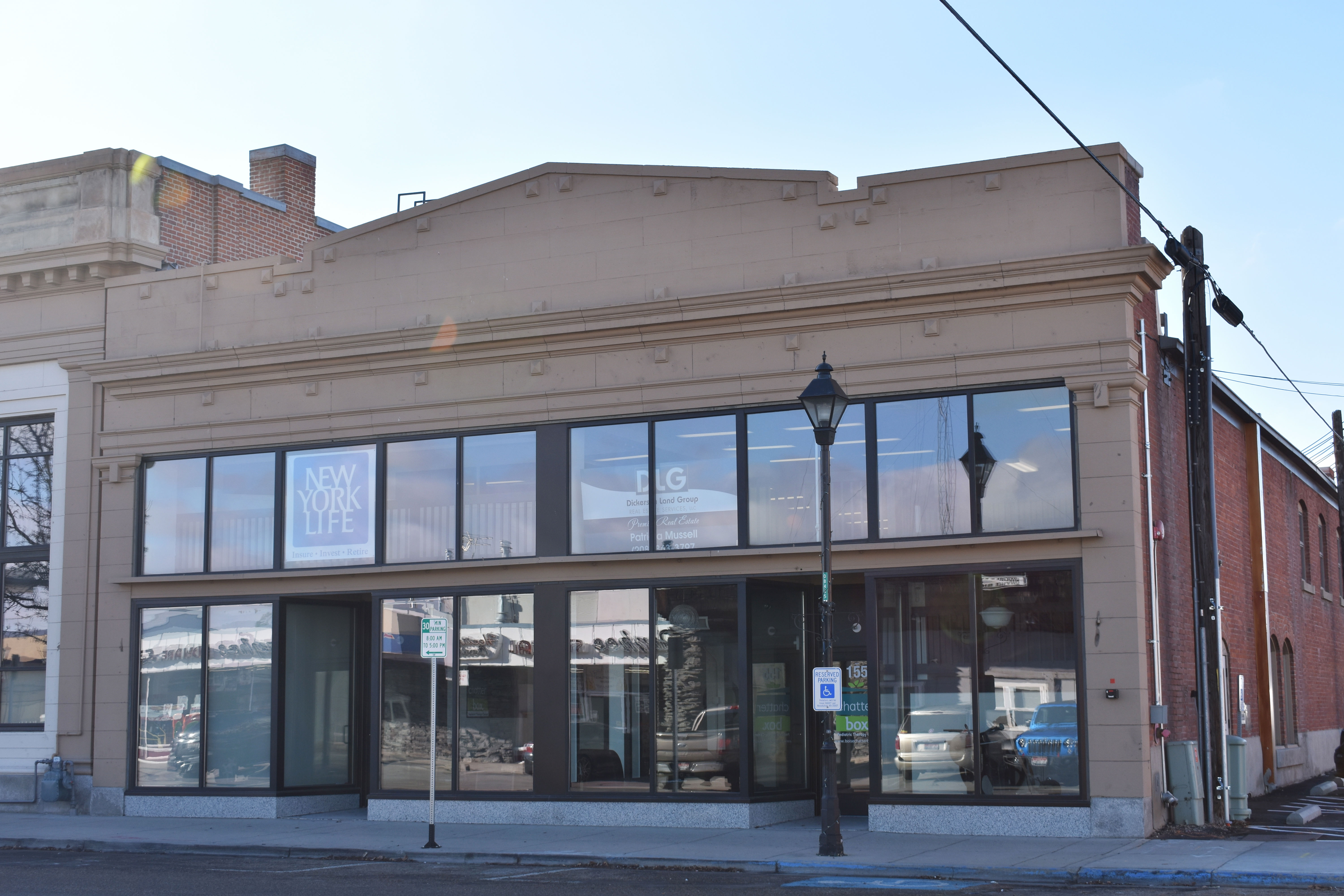 The E.H. Dewey Store (1919) in Nampa, Idaho, is listed on the National Register of Historic Places.